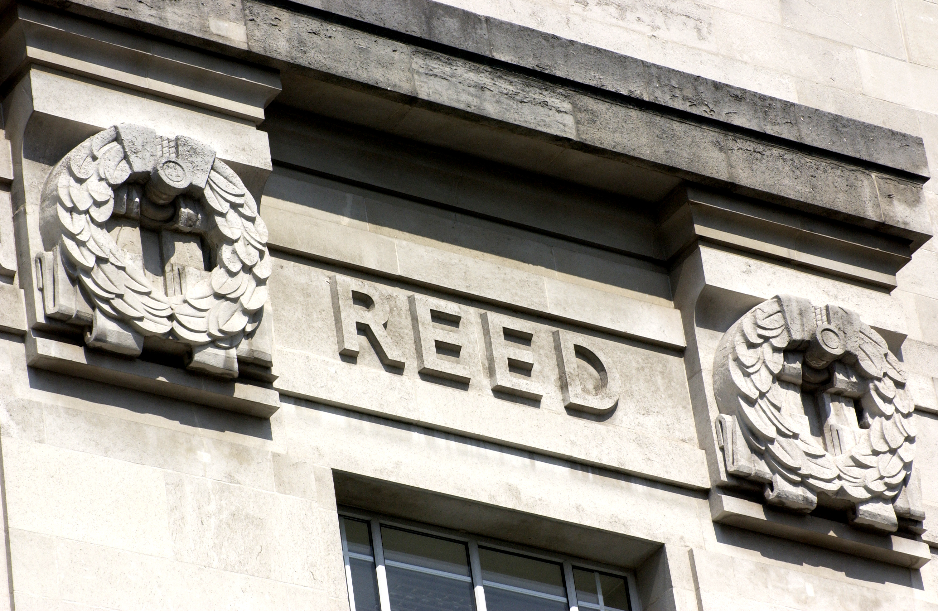 Walter Reed's name as it features on the LSHTM Frieze in Keppel Street